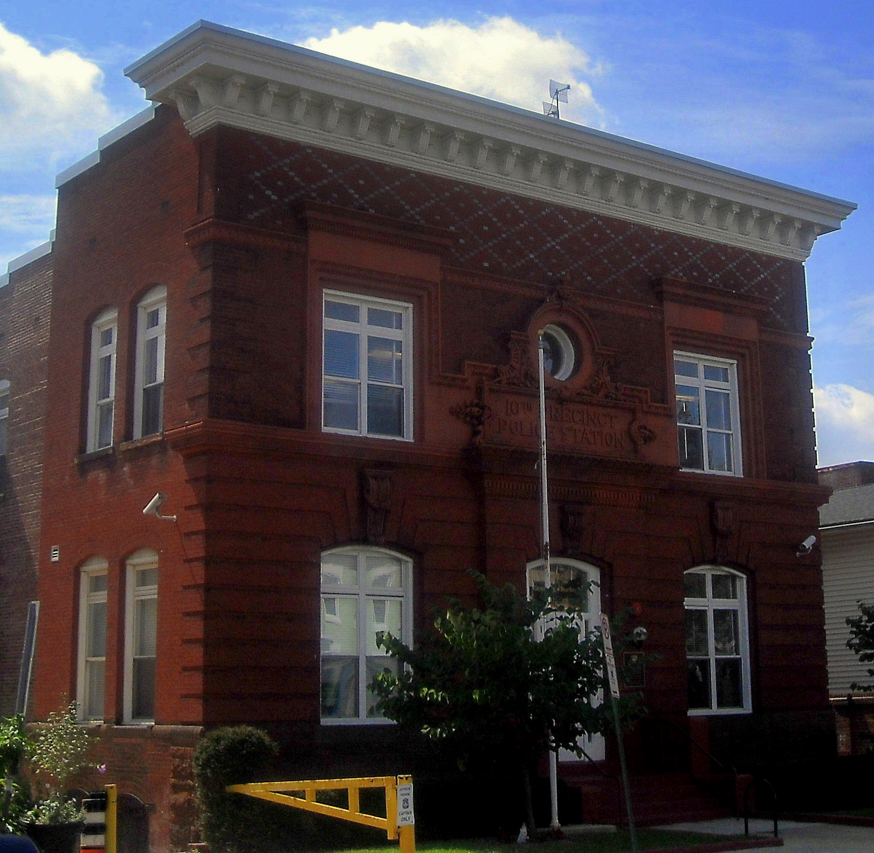 The Tenth Precinct Station House (now known as the Third District Sub Station) located at 750 Park Road, NW in the Park View neighborhood of Washington, D.C. It was designed by noted architect Alfred B. Mullett in 1901 and is listed on the National Register of Historic Places.